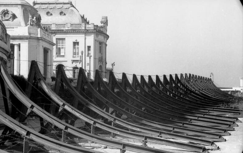 Information added by Wikimedia users."Hemmkurven" aus Metall als Panzersperre, Teil des Atlantikwalls in Nordfrankreich/Belgien, aufgenommen April/Juli 1943; translation: anti-tank obstacles made of steel as part of the Atlantic Wall in northern France/Belgium, picture taken April/July 1943.